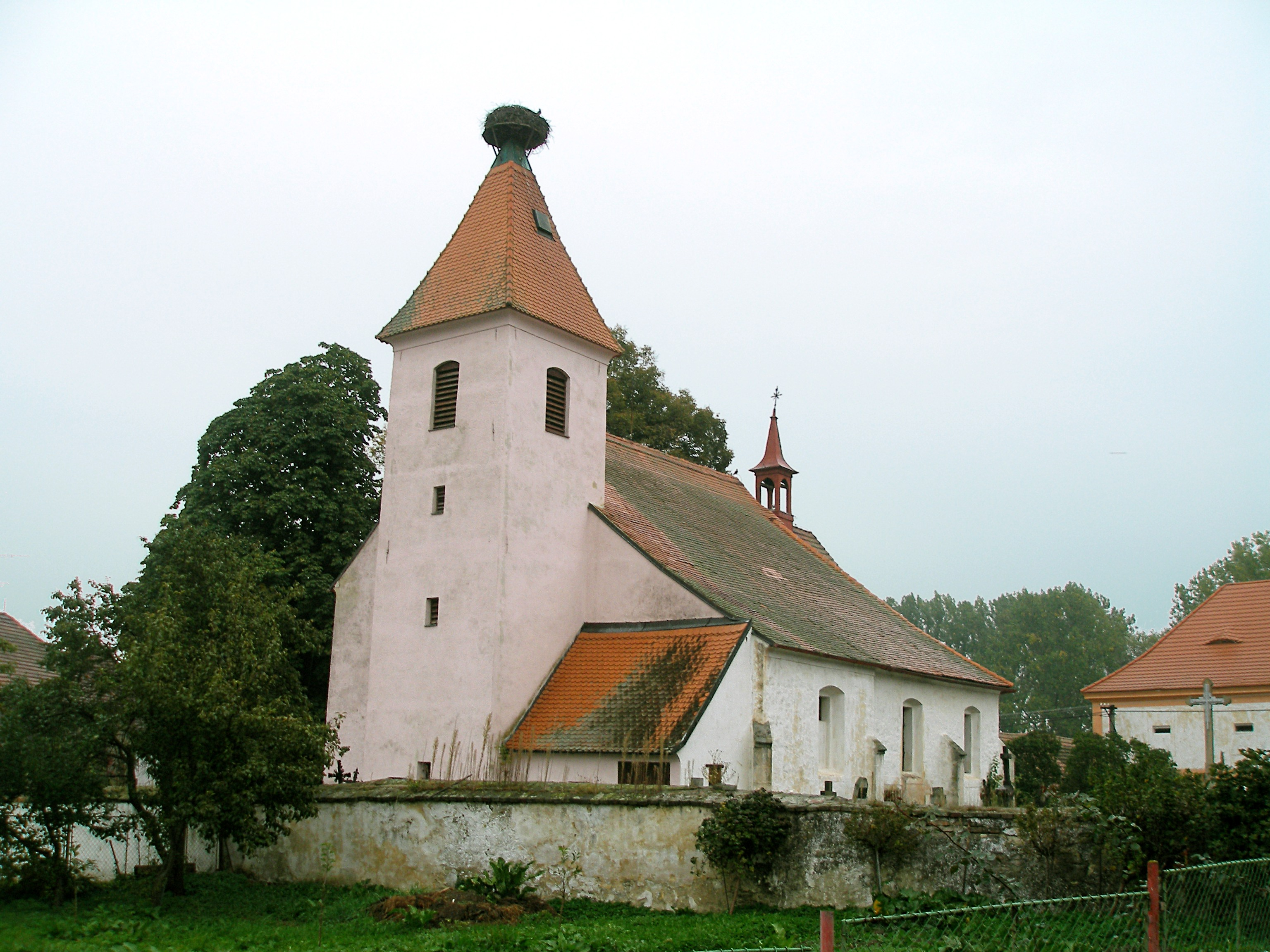 Strýčice - the church of the St. Peter an Paul